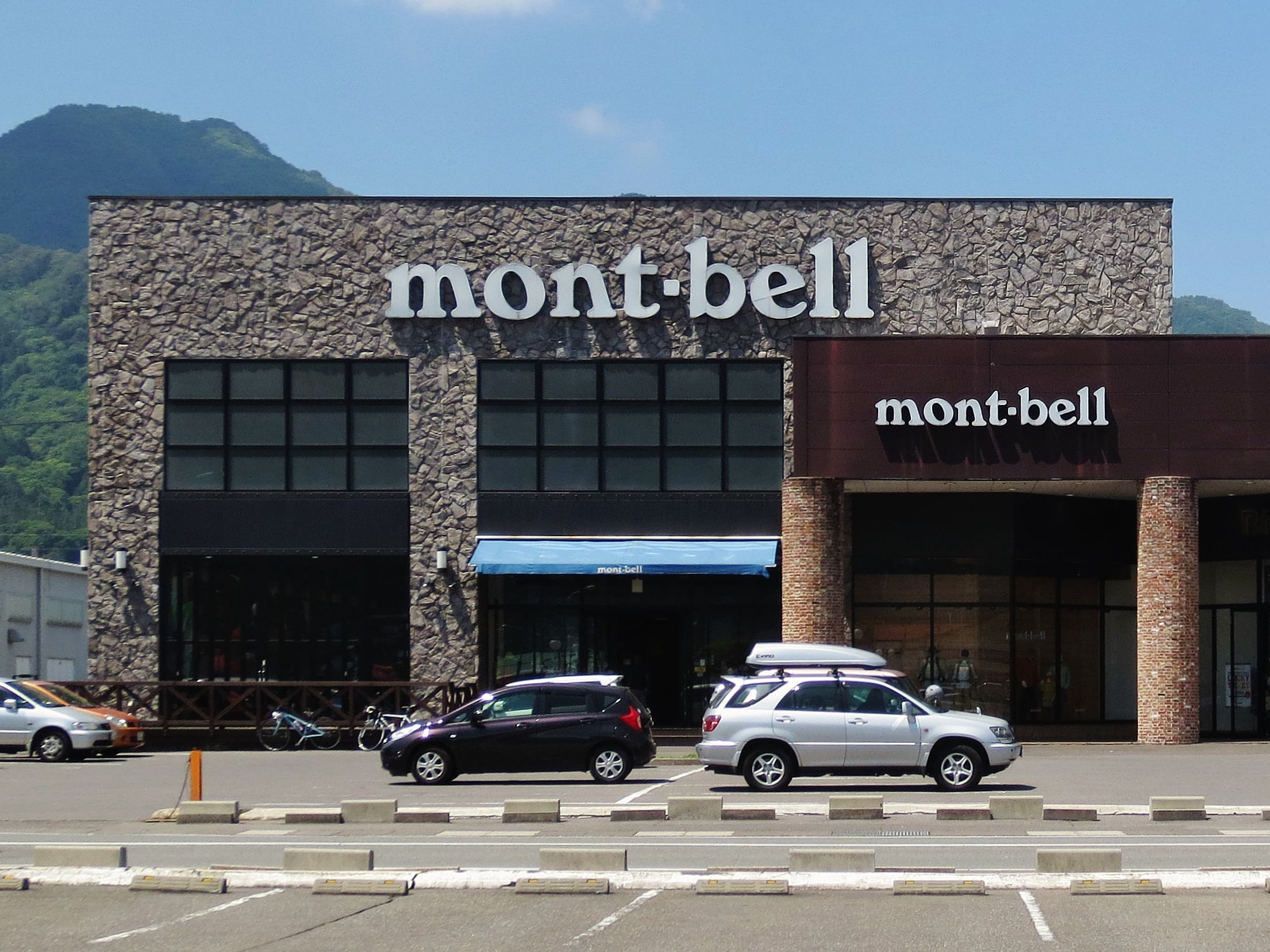 Suwa Station Park mont-bell Suwa Store.